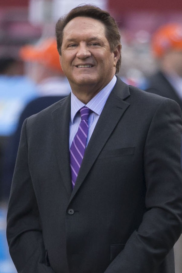 Packers at Redskins Wildcard Game 01/10/16